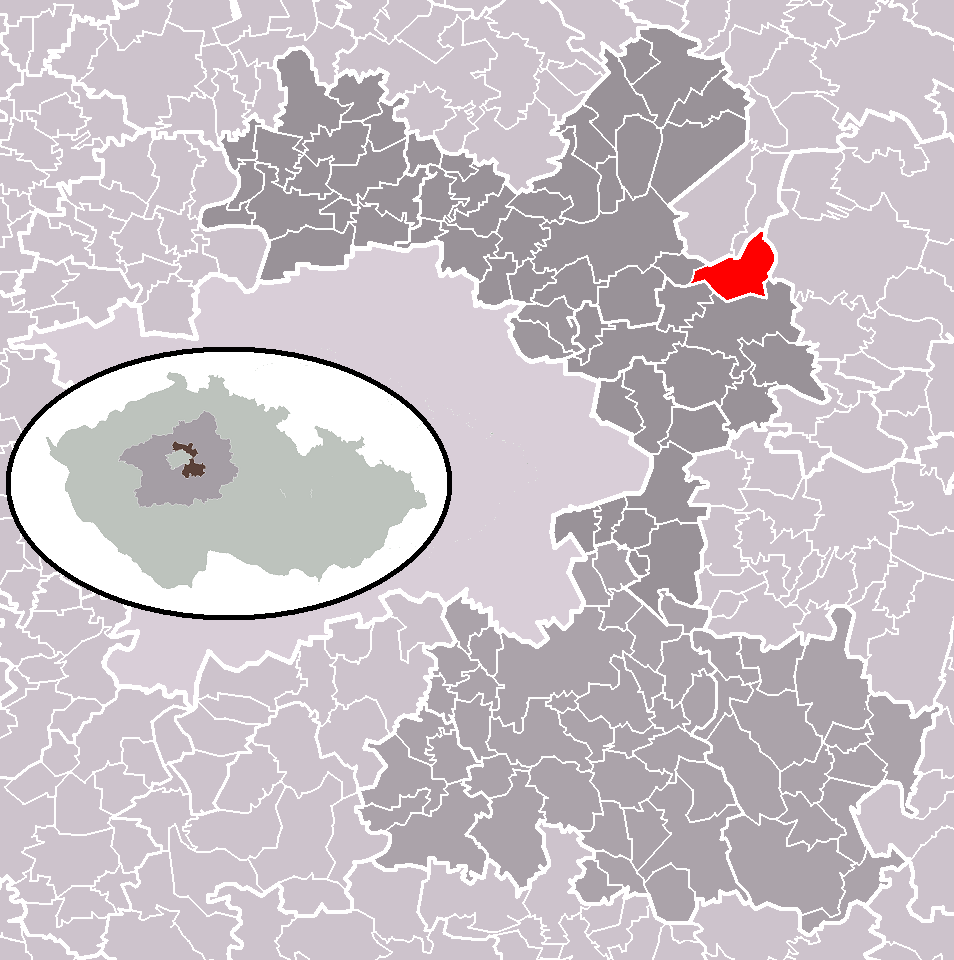 Location of Káraný municipality within Prague-East District and administrative area of Brandýs nad Labem-Stará Boleslav as a Municipality with Extended Competence.